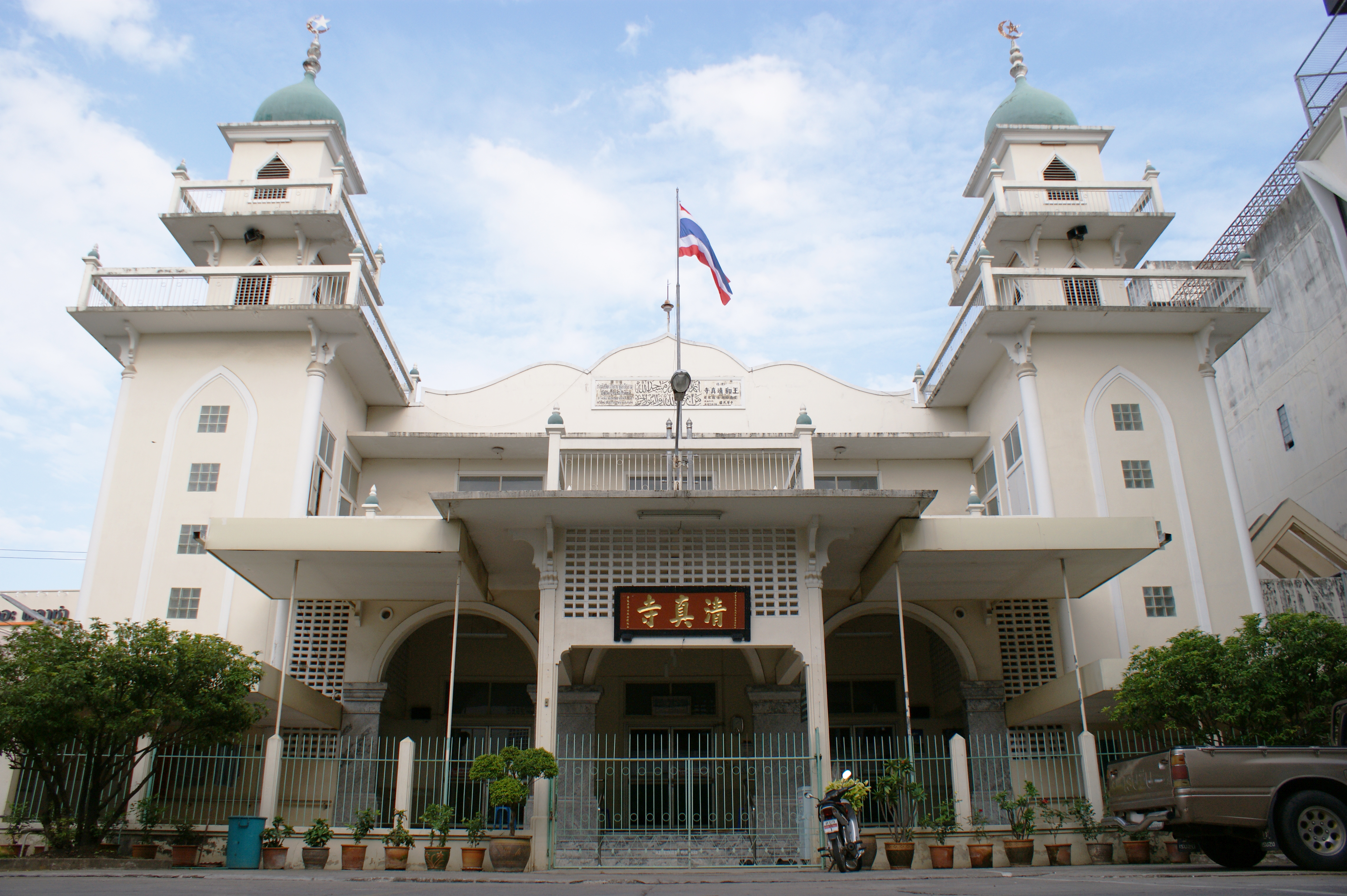 Baan Haw Mosque, Chiang Mai Province, Thailand